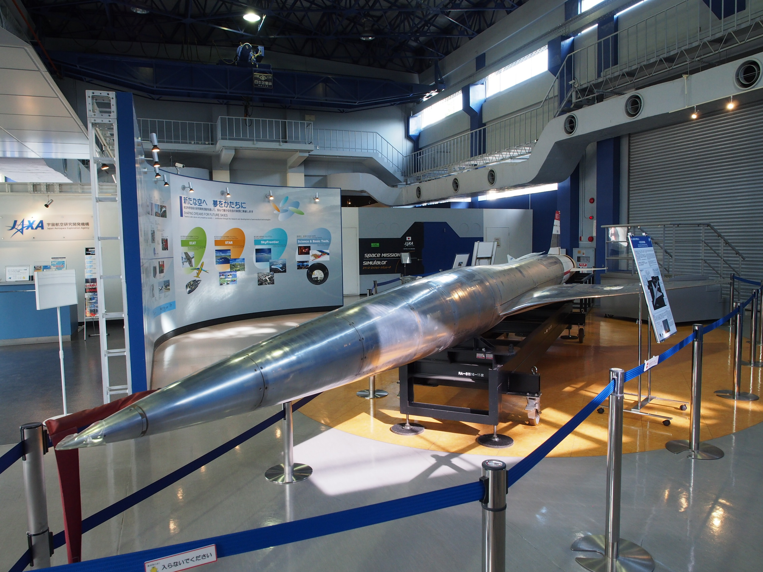 Inside the Exhibition Hall of JAXA Chofu Aerospace Center, in Chōfu City, Tokyo, Japan.